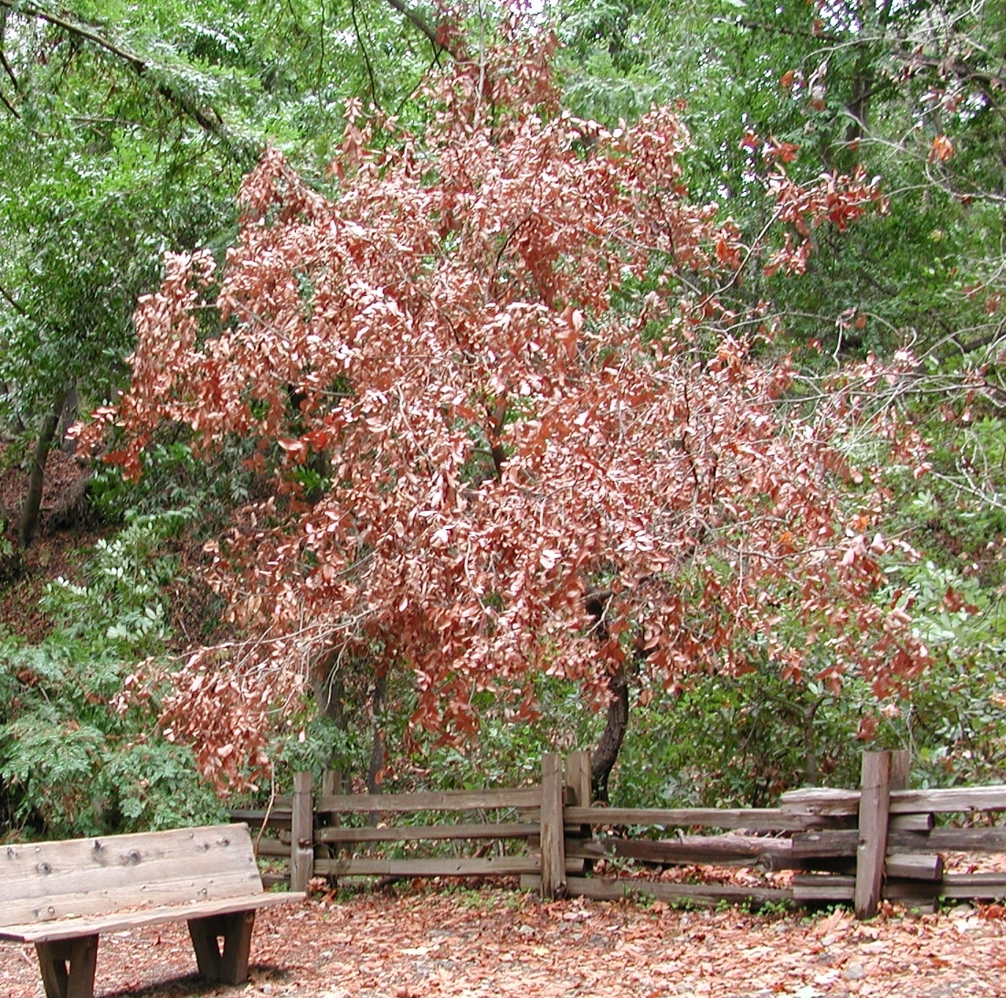 Notholithocarpus densiflorus killed by Phytophthora ramorum in the western U.S.